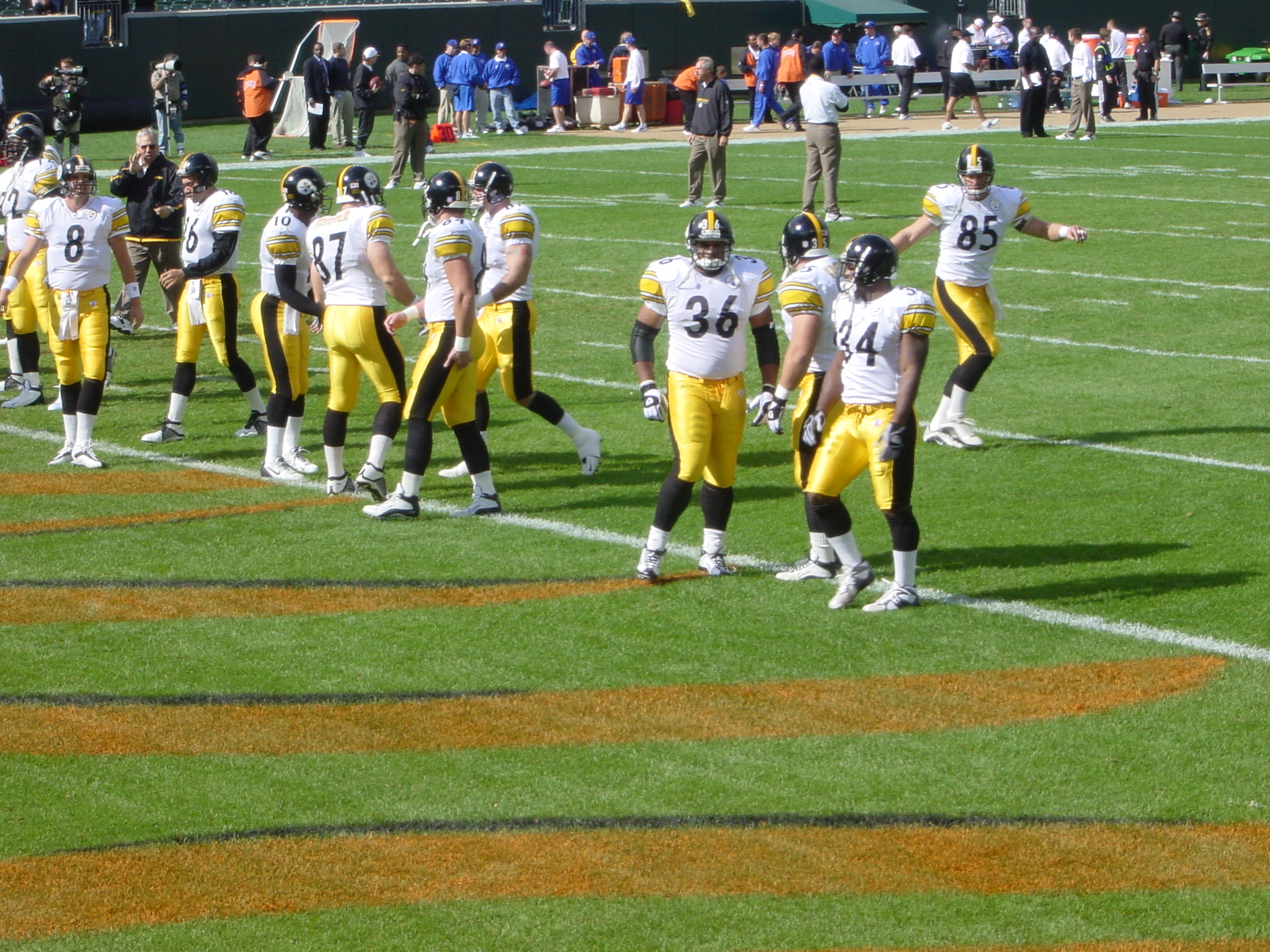 Various offensive line players for the Pittsburgh Steelers during 2002 season